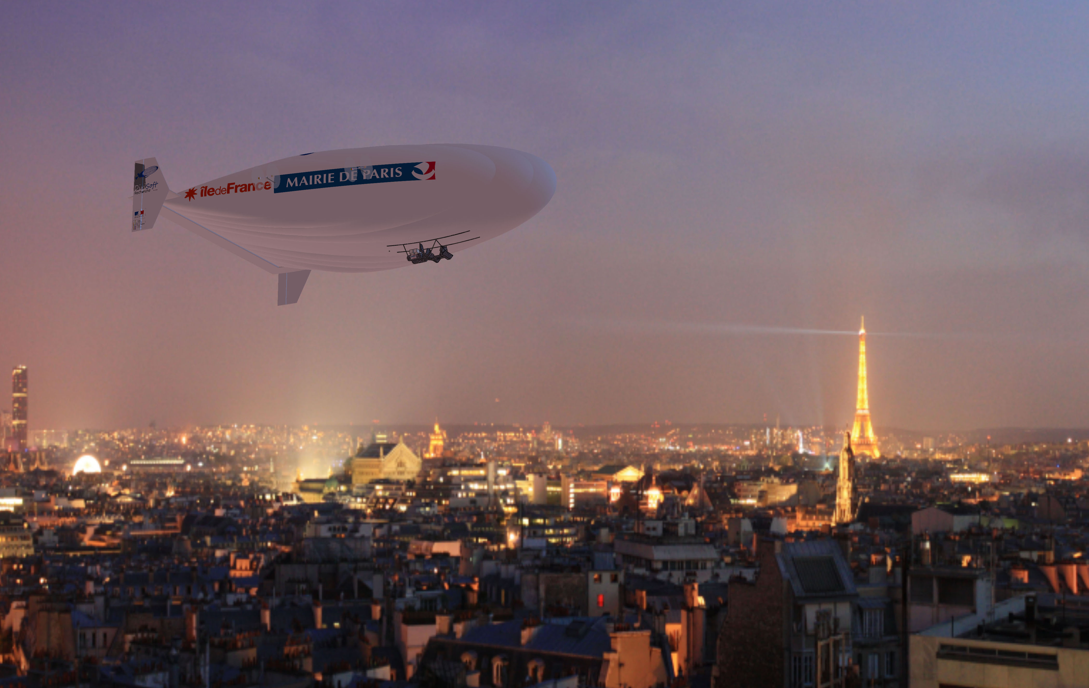 Paris Region Animation